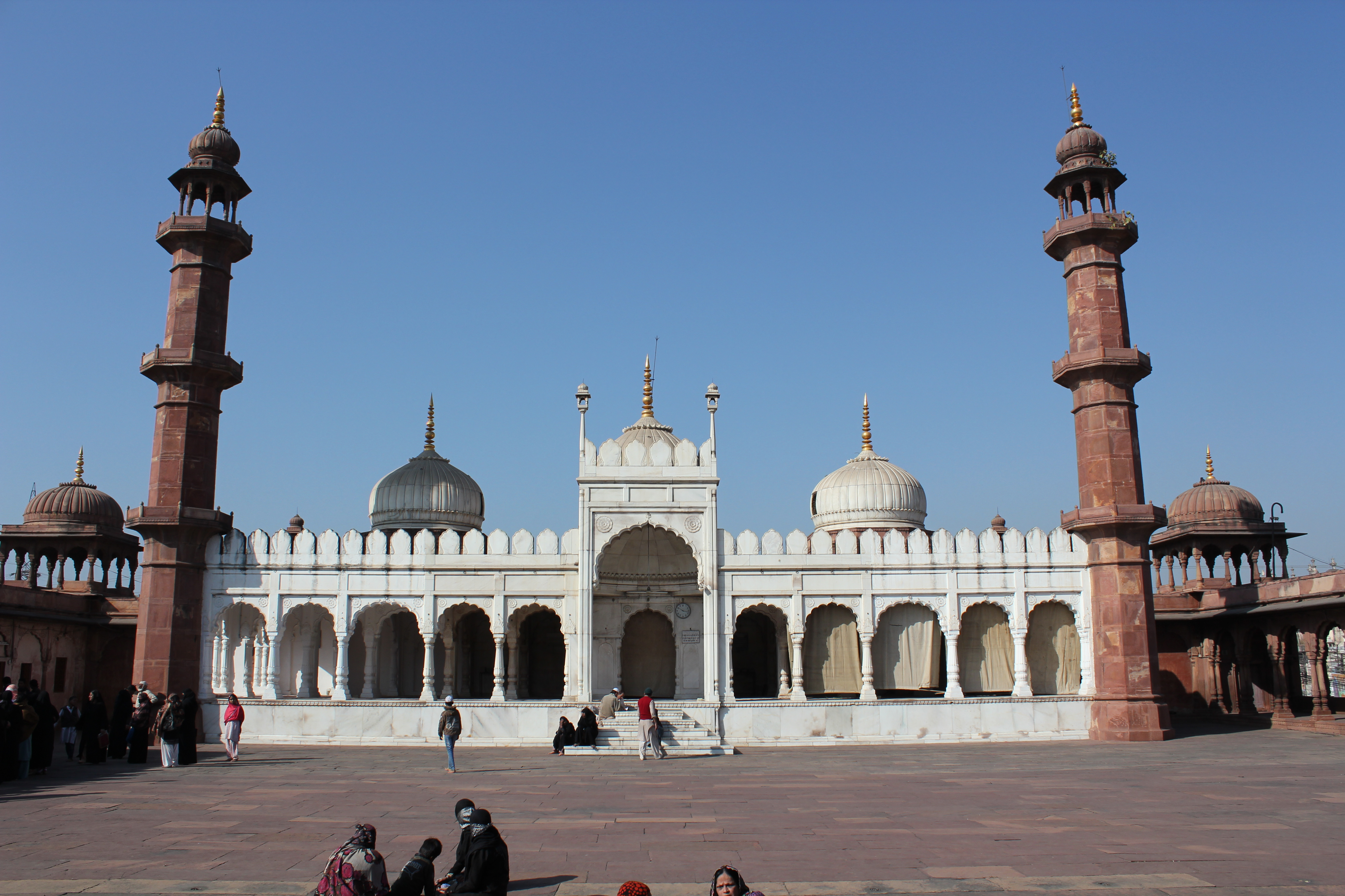 Bhopal, Moti Masjid Bhopal is the capital of the Indian state of Madhya Pradesh and was the capital of the former Bhopal State. Bhopal is known as the City of Lakes for its various natural as well as artificial lakes and is also one of the greenest cities in India. The city attracted international attention in December 1984 after the Bhopal disaster, when a Union Carbide India Limited pesticide manufacturing plant leaked a mixture of deadly gases mainly methyl isocyanide, leading to one of the worst industrial disasters in the world's history. The Bhopal disaster continues to be a part of the socio-political debate and a logistical challenge for the people of Bhopal. The Moti Masjid or the Mosque of Pearls is situated in the center of Bhopal. The Moti Masjid was built in 1860 by Sikandar Begum, and became an important landmark of Bhopal. Sikandar Begum's practice of dressing like a man and public appearances without a veil, led Bhopal to be known for its relatively liberated, progressive women. (source